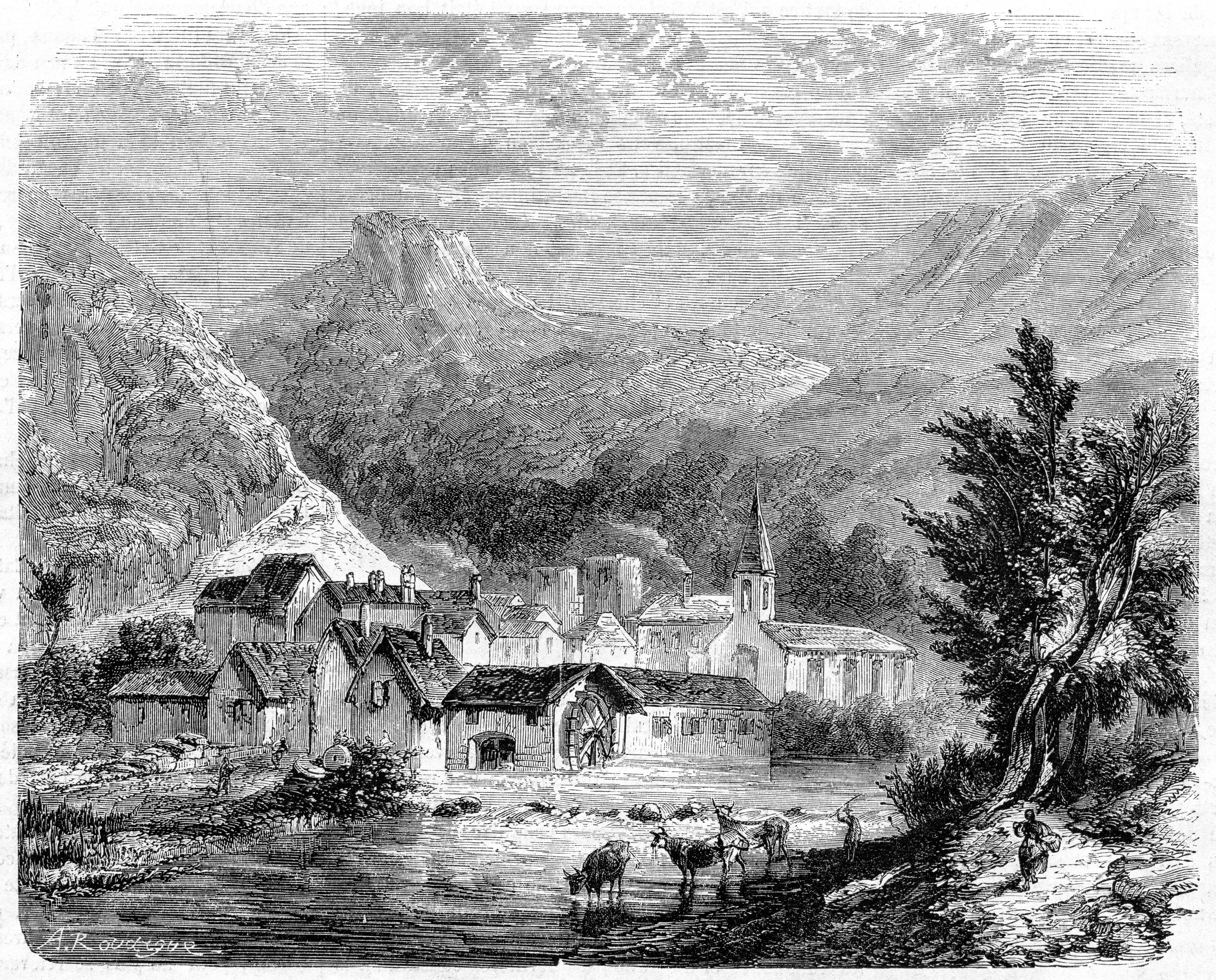 L'Illustration 1862 gravure Sant Julià de Lòria, Andorra